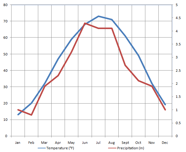 Temperature and precipitation averages for the Twin Cities.